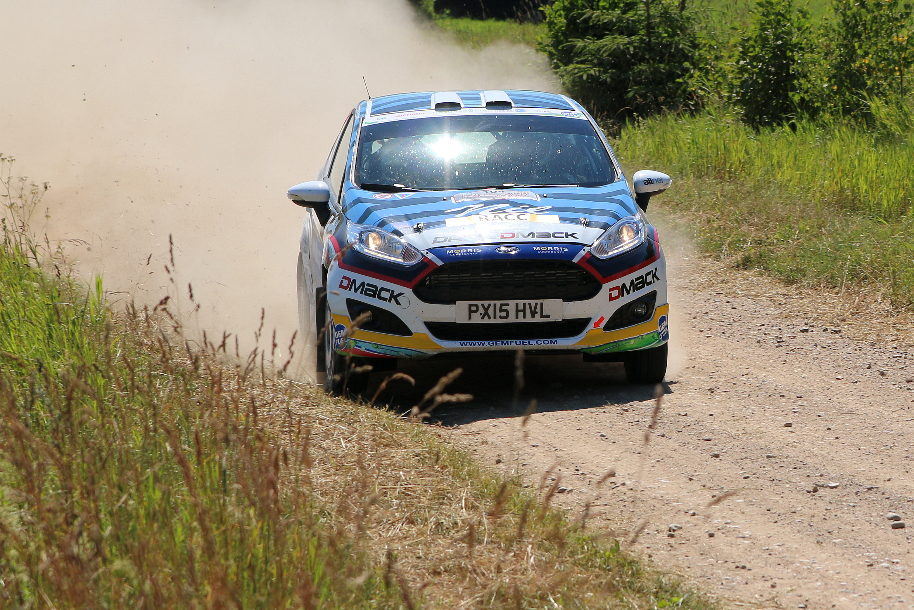 Nil Solans, OS 10 Mazury, 72nd LOTOS Rally Poland